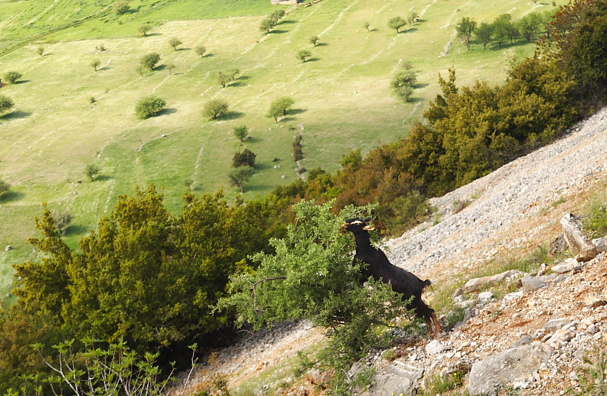 Goat on the arid karst of the Peloponnes browsing a young tree. When there are too many livestock feeding too long on a limited area, vegetation is unable to recover. “overgrazing” causes erosion and then soil contamination. Deterioration of the mediterranian environment into overgrazed shrubland (summers hot and dry, winters rainy) started centuries ago. The traditional animal husbandry inhibits sustainable development.